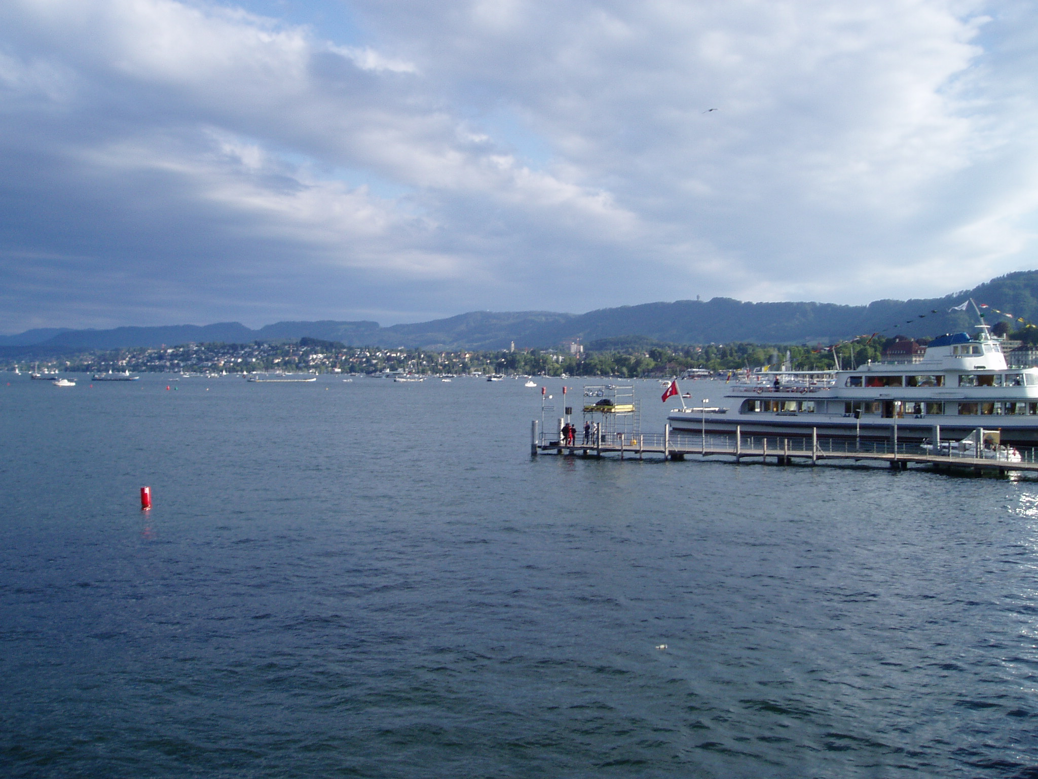 Lake Zurich during the "Zuerifescht" (city party which takes place every three years)